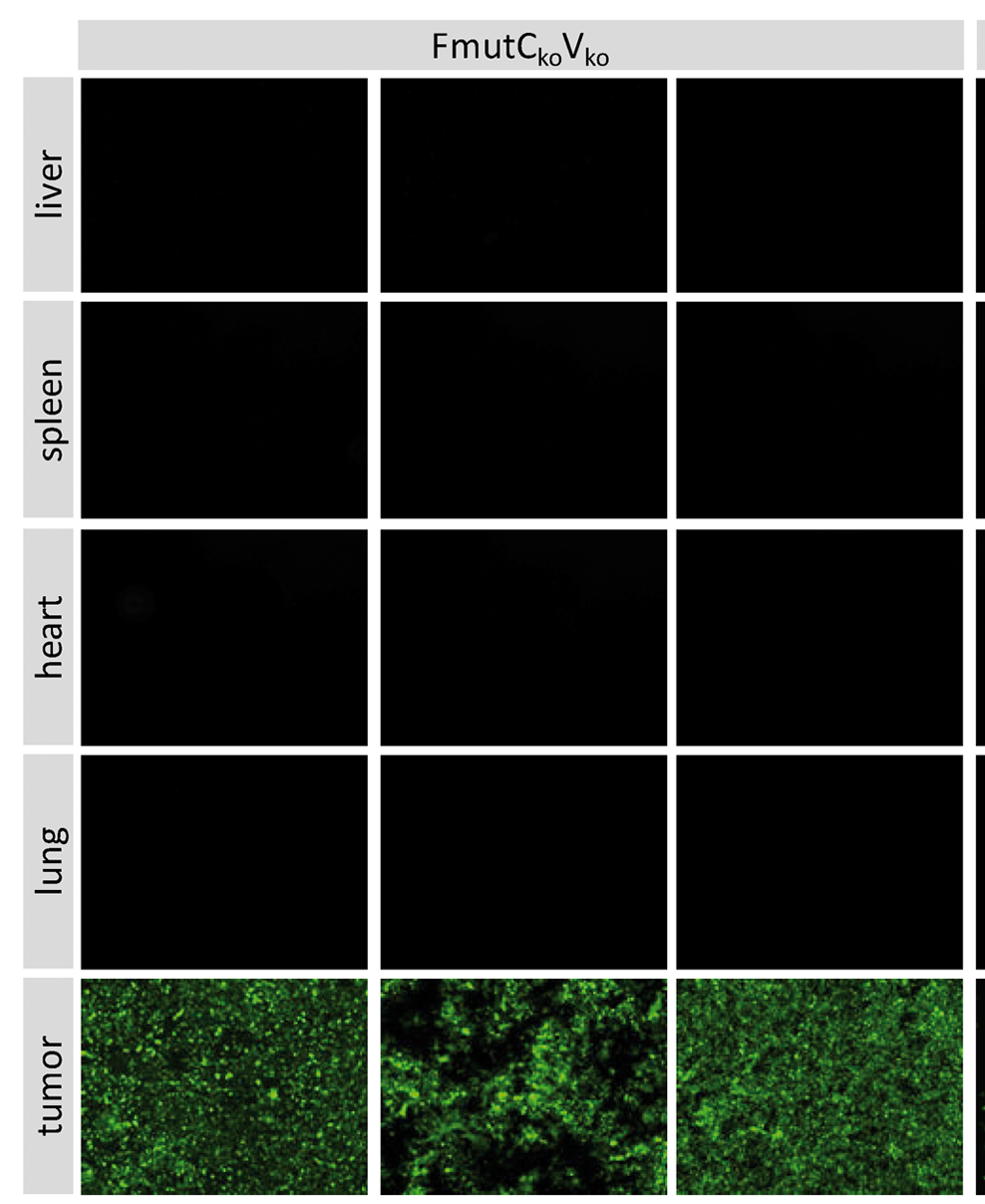 Recombinant SeV constructs (1×107 TCID50/100 µl) were injected intratumorally. 48 h post injection the mice were sacrificed, tumors were removed and indicator cultures (Vero cells) were infected with lysates from frozen tissue sections. Fluorescence microscopy pictures of the infected Vero cells were taken 72 hpi. Shown are representative picture for each animal.